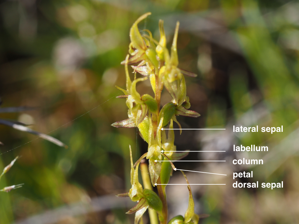 Labelled diagram of Prasophyllum gracile